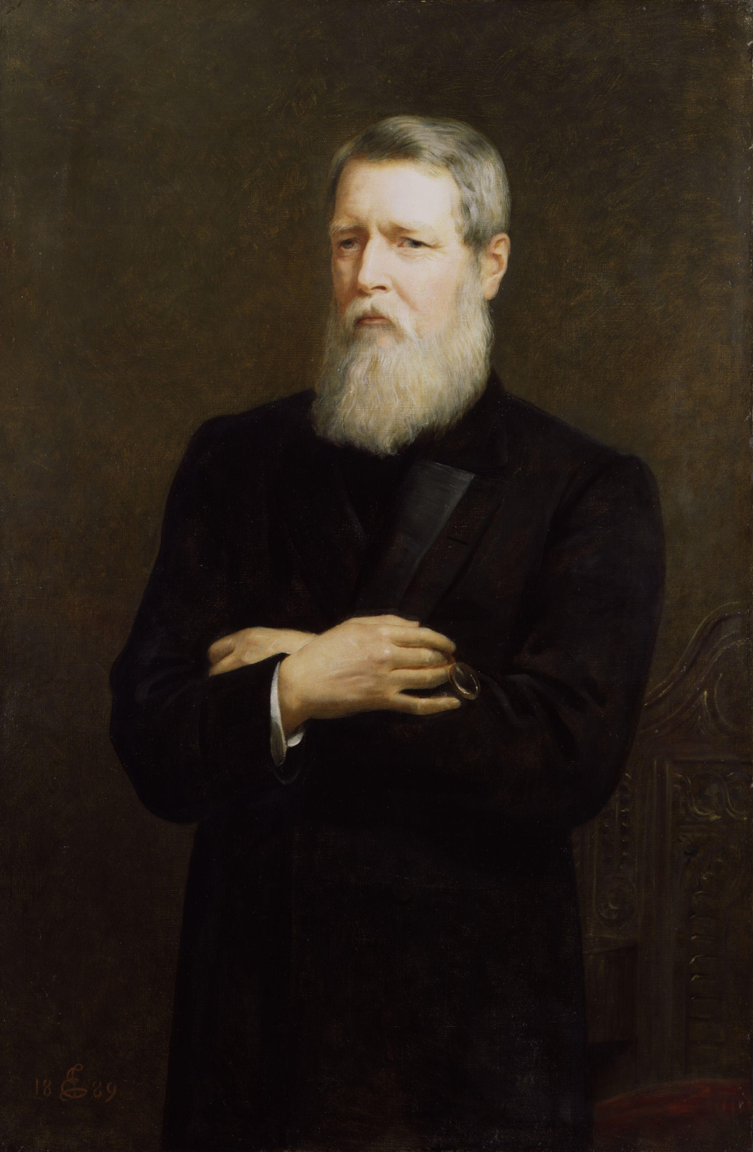 Stafford Henry Northcote, 1st Earl of Iddesleigh, by Edwin Longsden Long (died 1891), given to the National Portrait Gallery, London in . All images in this batch have been confirmed as author died before 1939 according to the official death date listed by the NPG.